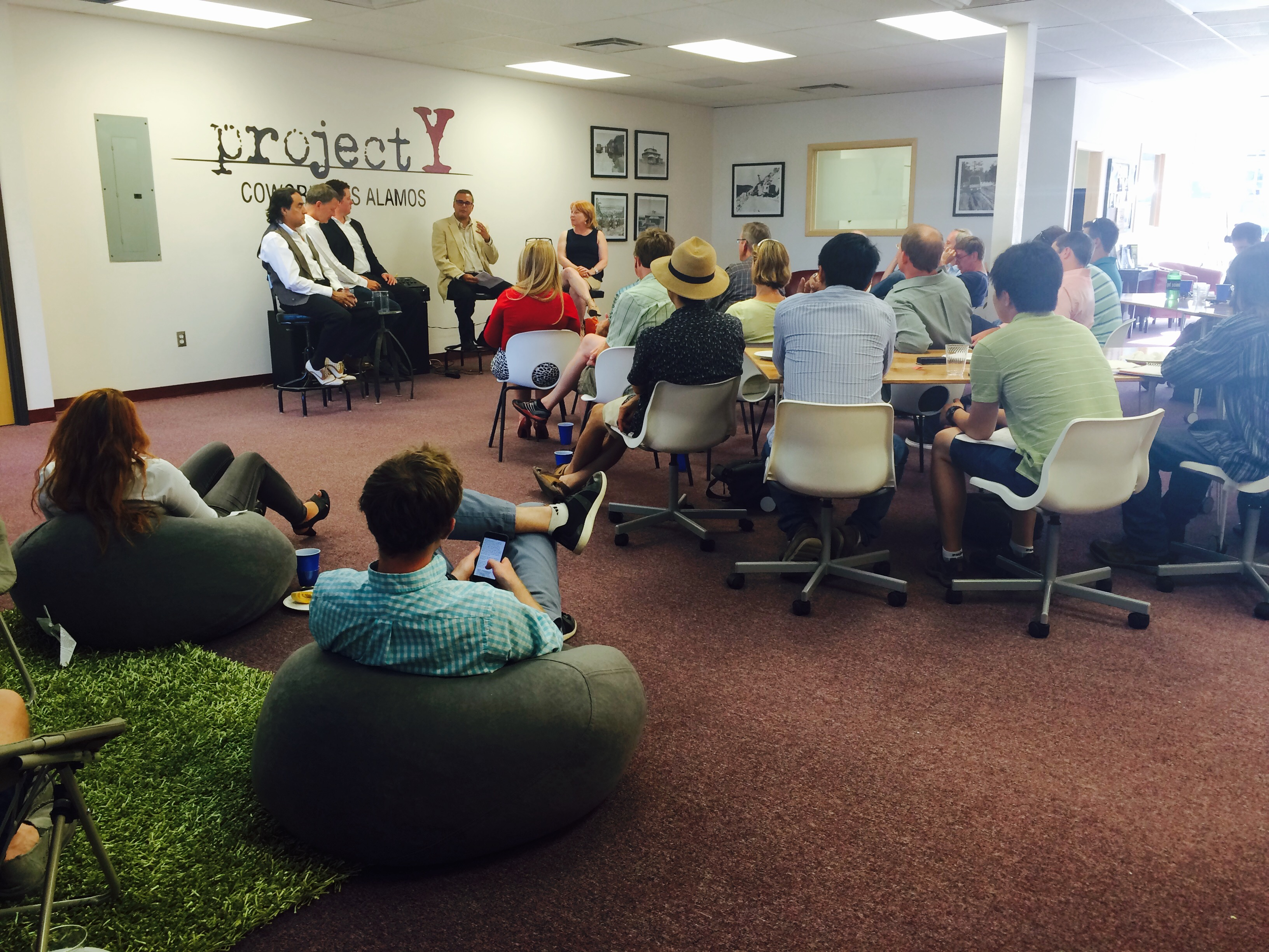 A New Mexico High Tech Roundtable panel discussion takes place at projectY cowork Los Alamos summer 2016.